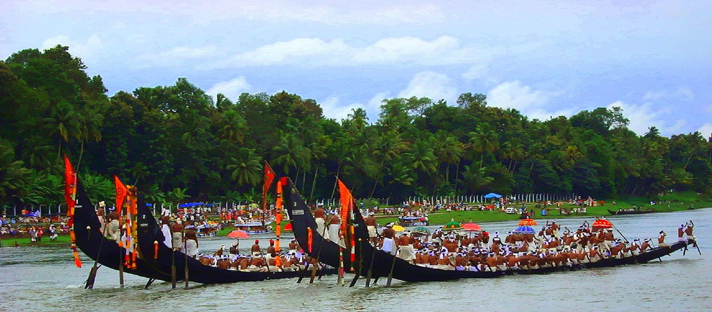 The Aranmula Boat Race takes place at Aranmula, India near a temple dedicated to Lord Krishna and Arjuna. Thousands of people gather on the banks of the river Pampa to watch the snake boat races. Nearly 30 snake boats or "chundan vallams" participate in the festival. The oarsmen sing traditional boat songs and wear white dhotis and turbans. The golden lace at the head of the boat, the flag and the ornamental umbrella at the center make it a show of pageantry too. Each snake boat belongs to a village along the banks of the river Pampa. Every year the boats are oiled mainly with fish oil, coconut shell, and carbon, mixed with eggs to keep the wood strong and the boat slippery in the water. The village carpenter carries out annual repairs and people take pride in their boat, which is named after and represents their village.